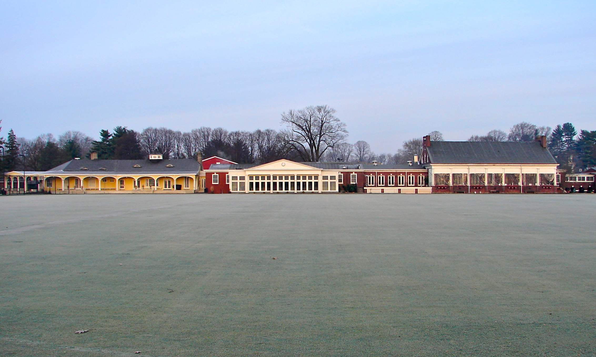 Philadelphia Cricket Club in Chestnut Hill neighborhood in NW Philadelphia. Note that there is very little if any cricket played there now. These "fields" are tennis courts in the warm months. Clubhouses and officies are behind the courts.